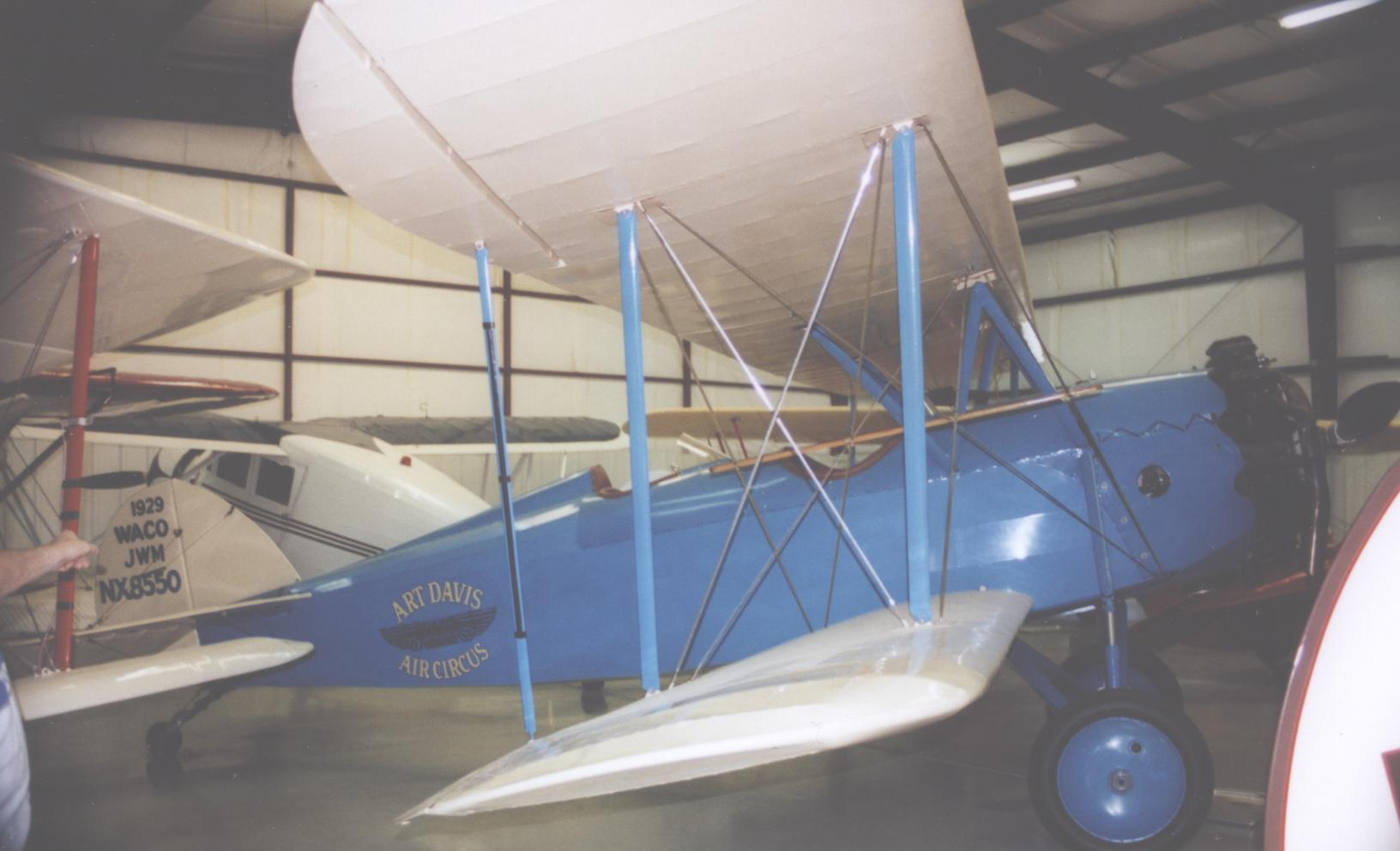 Waco JWM mailplane built 1929 preserved at the Historic Aircraft Restoration Museum, Dausrter Field, St Louis, Missouri